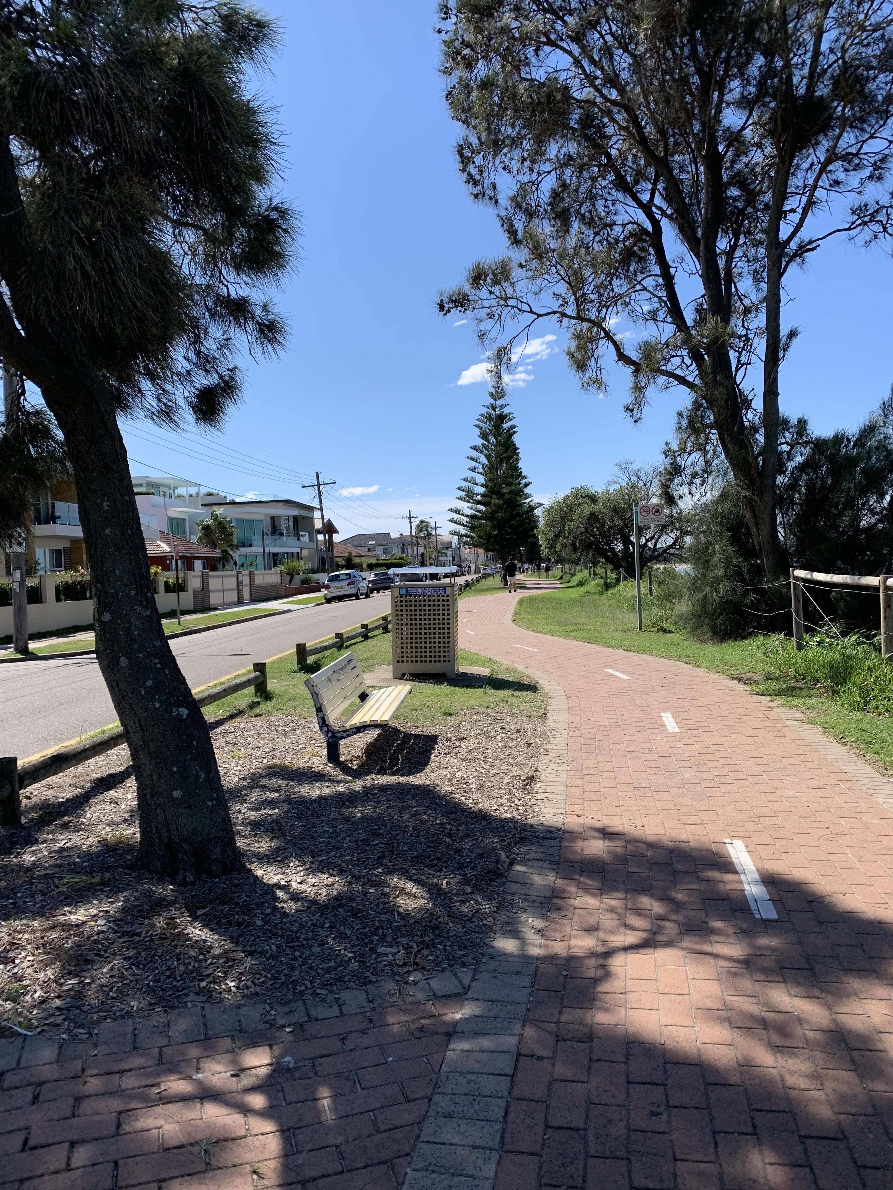 This cycle path spans from the north-most tip of Lady Robinson's beach, down to the southern end past Brighton-Le-Sands. This image faces north-bound, or towards the city.